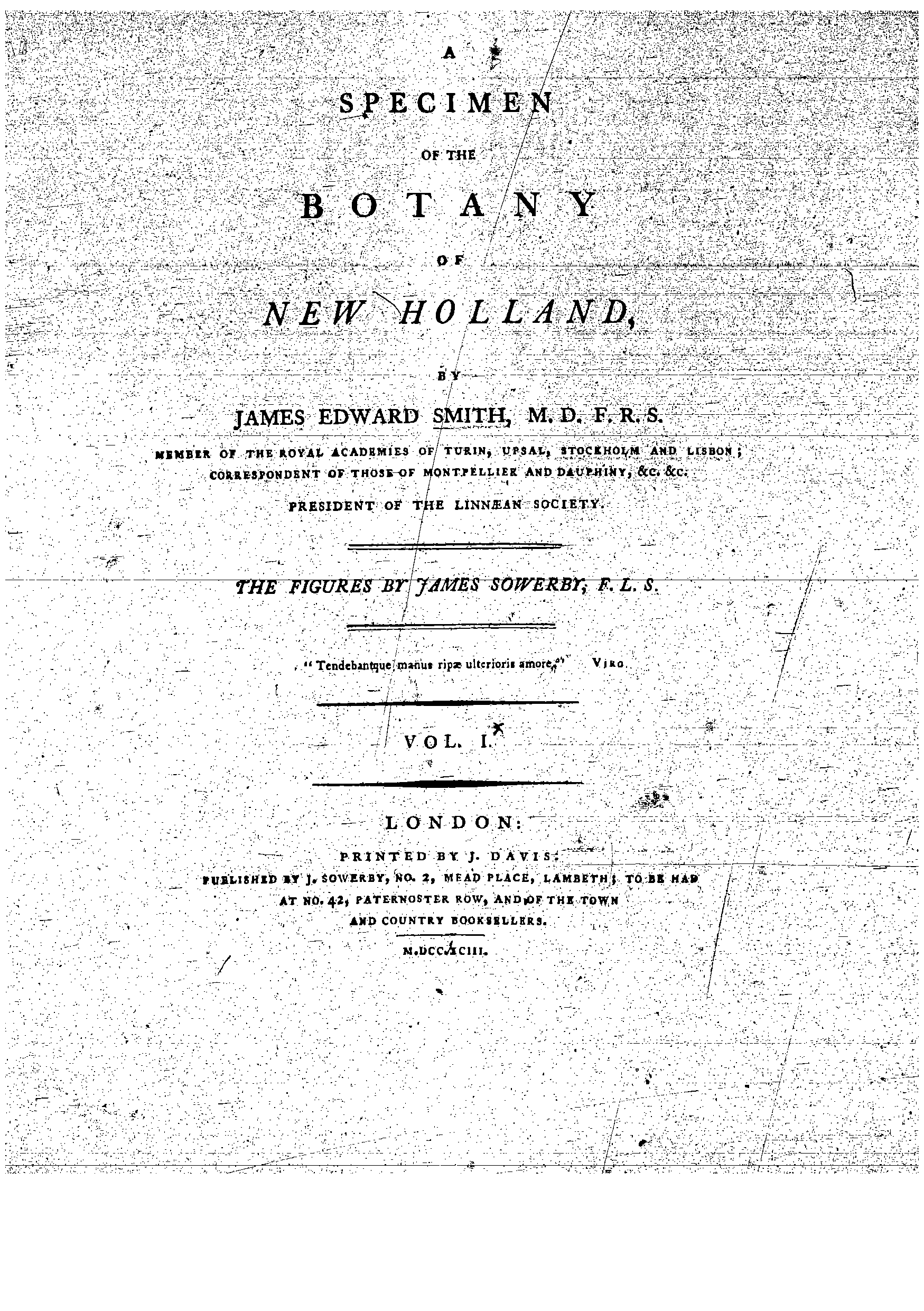 This is a page from James Edward Smith's A specimen of the botany of New Holland, the first separately published book on the flora of Australia. The original work is in the public domain by virtue of its author having died a great many years ago. The scan is recent, but since this is a slavish copy of a two dimensional work, and since the scan was performed in the United States, it too is in the public domain.